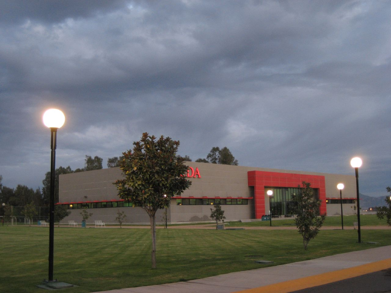 The Center for Advanced Design of the Monterrey Institute of Technology and Higher Education, Guadalajara Campus in Western Mexico.